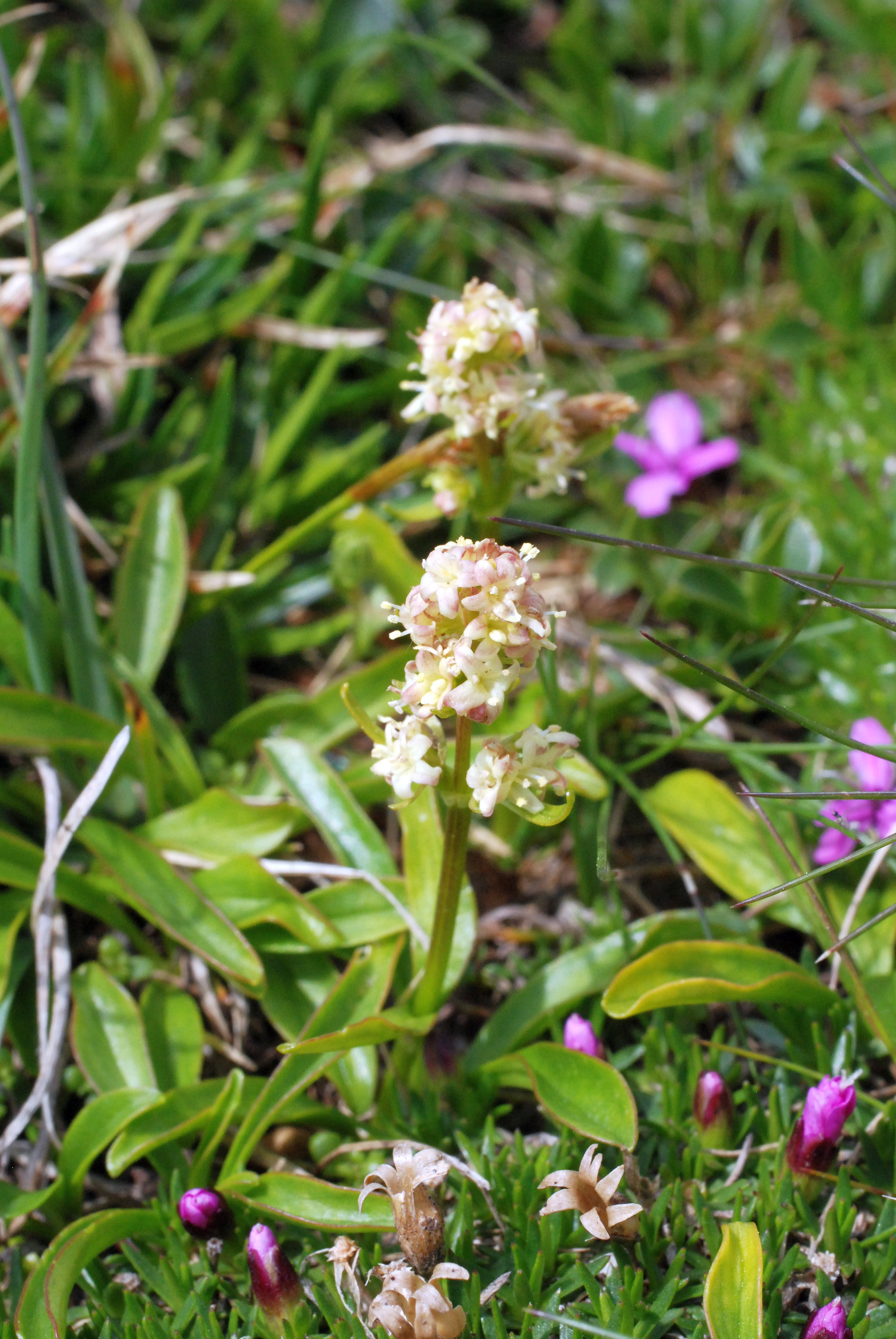 Valeriana celtica with Silene acaulis and Carex firma Warscheneck summit ~2300m, Austria